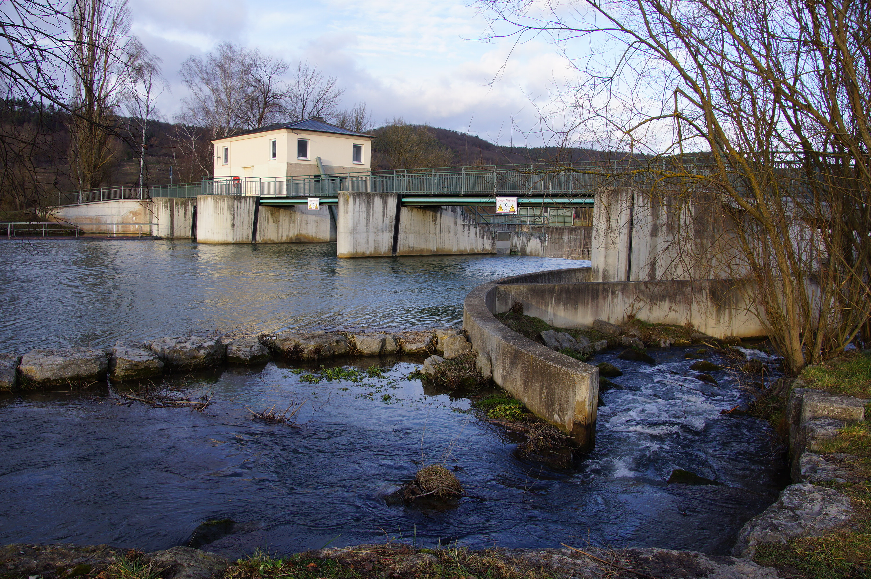 Hydro power generation plant in the Neckar near Tübingen-Weilheim (Germany)